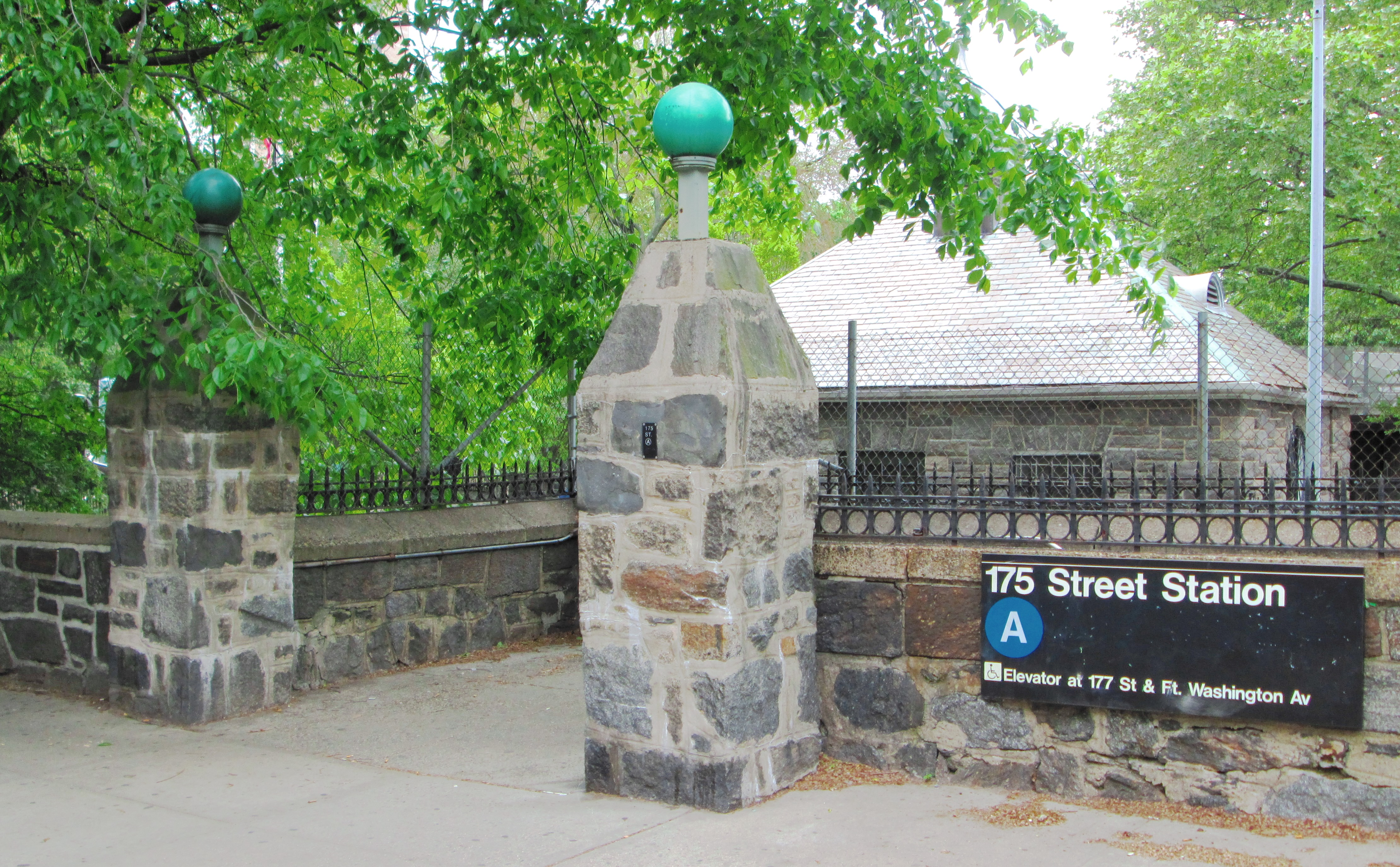 The entrance to the IND Eighth Avenue (A service) 175th Street subway station on Fort Washington Avenue between West 174th and 175th Streets in the Washington Heights neighborhood of Manhattan, New York City